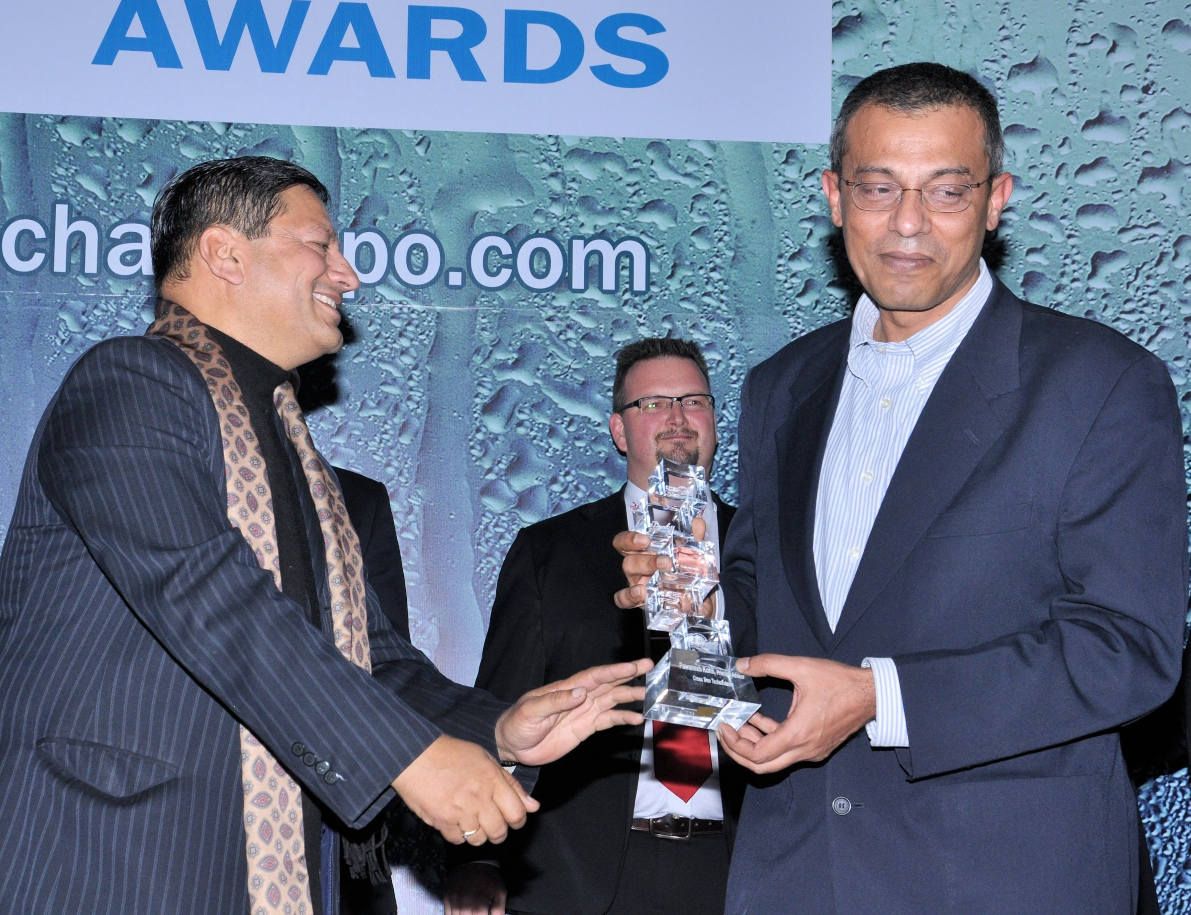 Pawanexh Kohli receiving Exemplary Though Leader Award